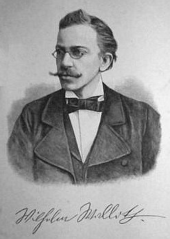 Portrait Wilhelm Walloth